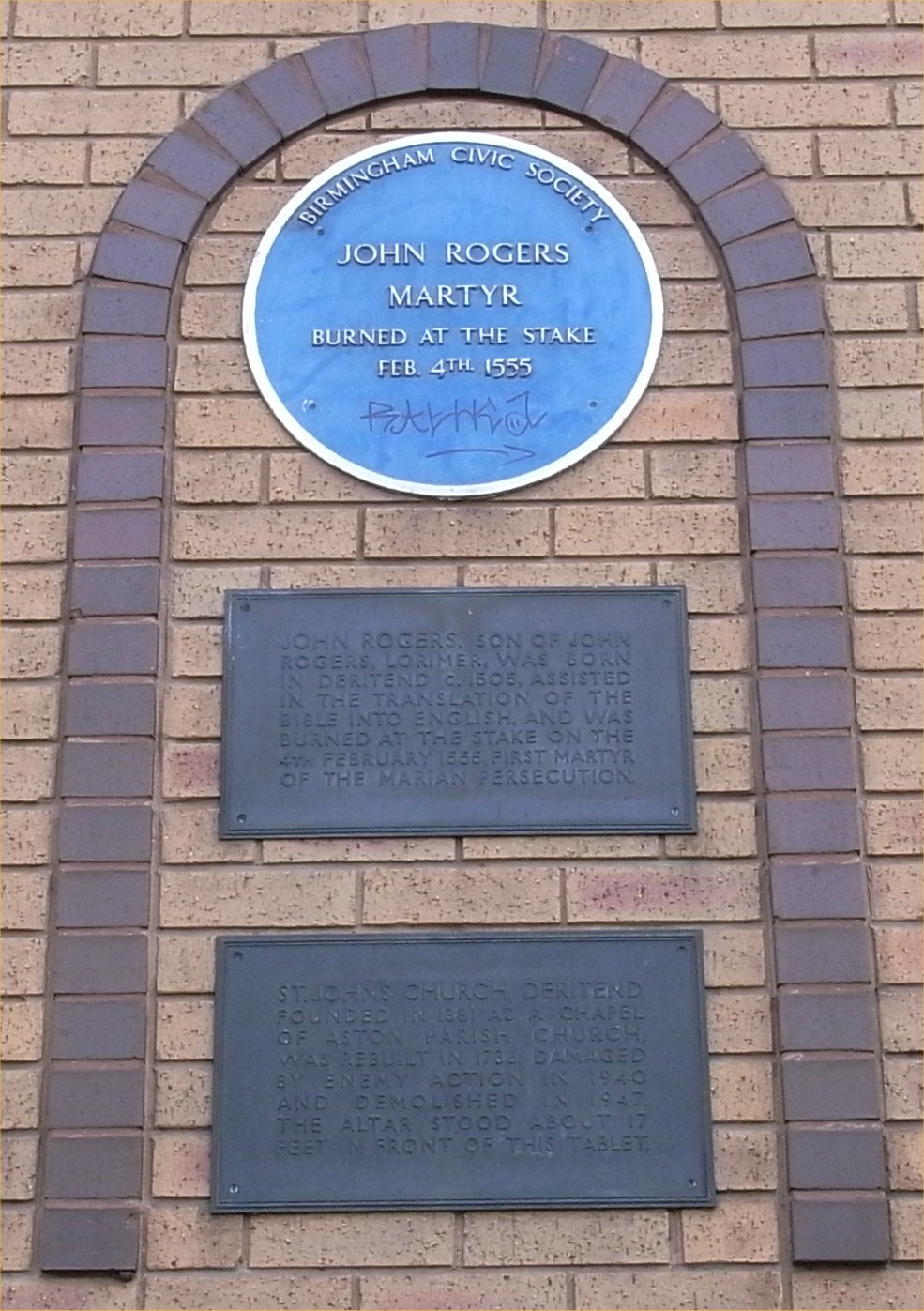 Blue plaque and other plaque to John Rogers (c.1505–1555), the first English Protestant martyr under Mary I of England. Opposite the Devonshire Buildings of Alfred Bird and Sons Ltd. (Bird's Custard), Deritend, Birmingham, England.